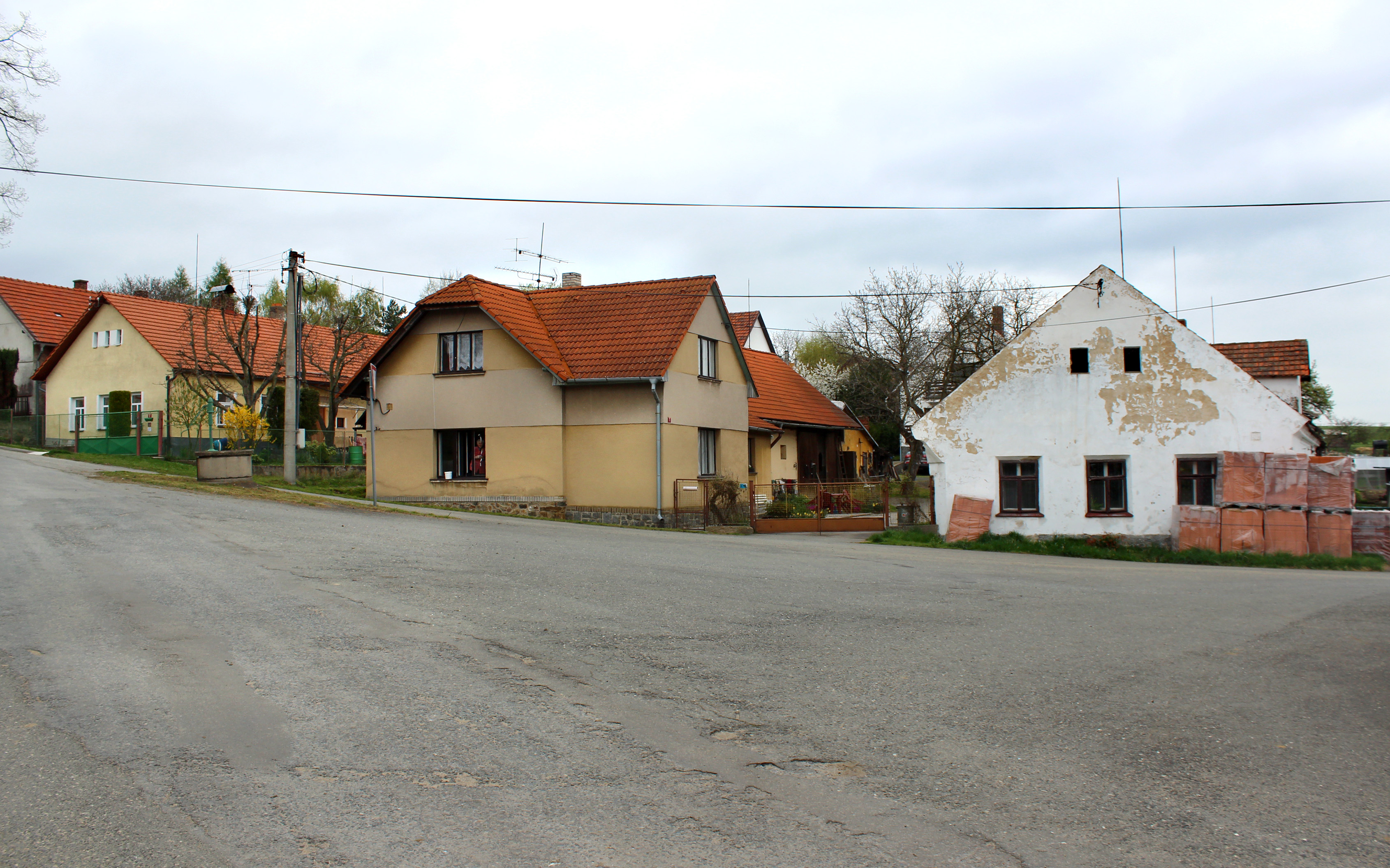 Common in Čakov, Czech Republic